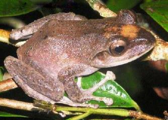 Photograph of the Fiji tree frog, Platymantis vitiensis